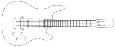 Outline of assymmetrically cut guitar body